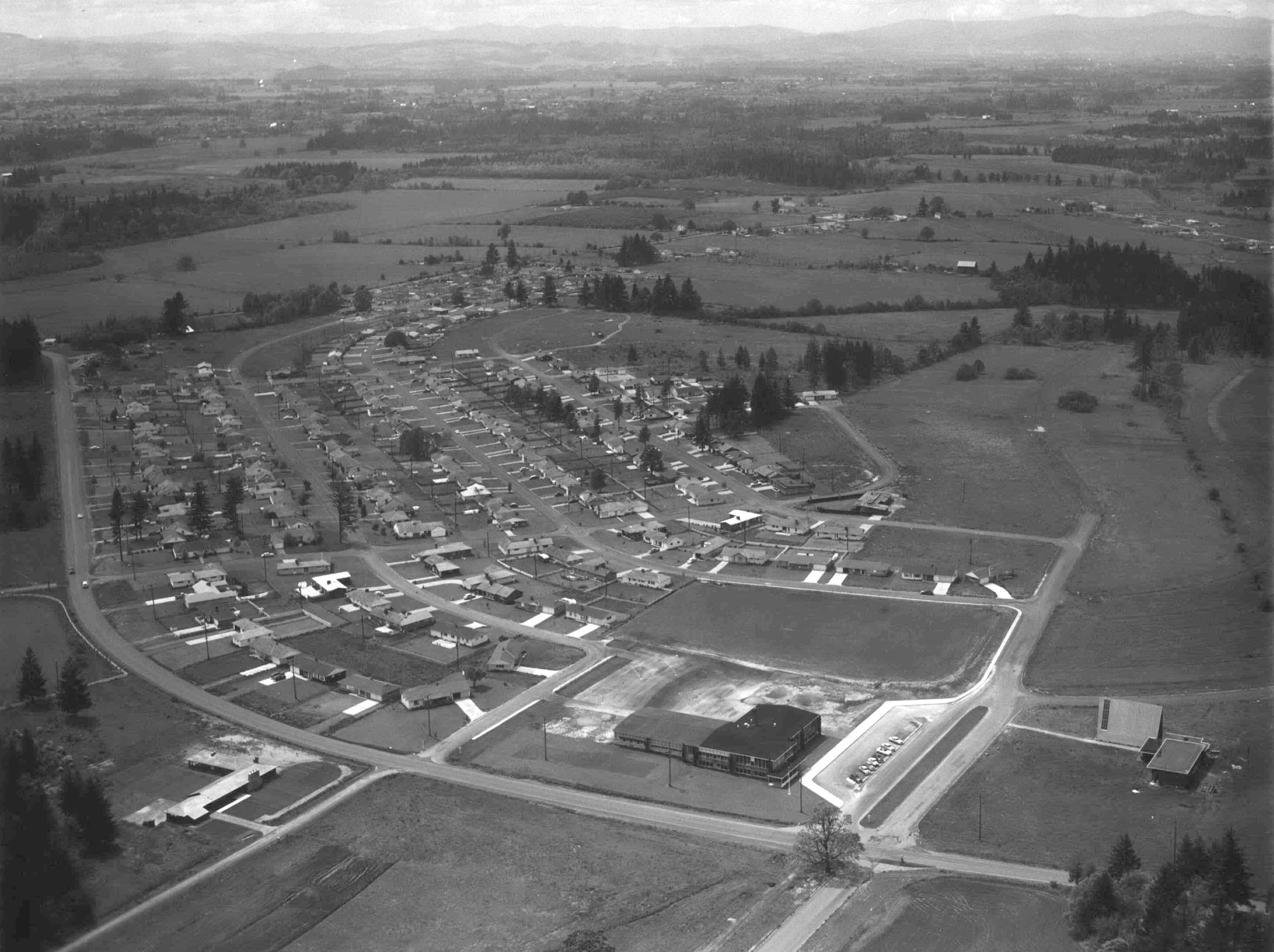 Early Cedar Hills, looking southwest. Cedar Hills Blvd. runs (north and south) along the bottom of the frame and bending (southwestwards) towards the left side of the frame. In the lower center is Cedar Hills Elementary School, built in the early 1950s, at the intersection of Cedar Hills Blvd. and Parkway (a.k.a. Park Way). (The school is now a community center and recreation center.) Historical images of Beaverton, Oregon.